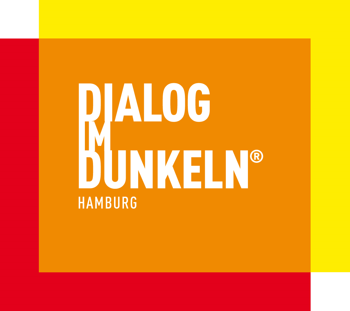 Logo Dialog im Dunkeln